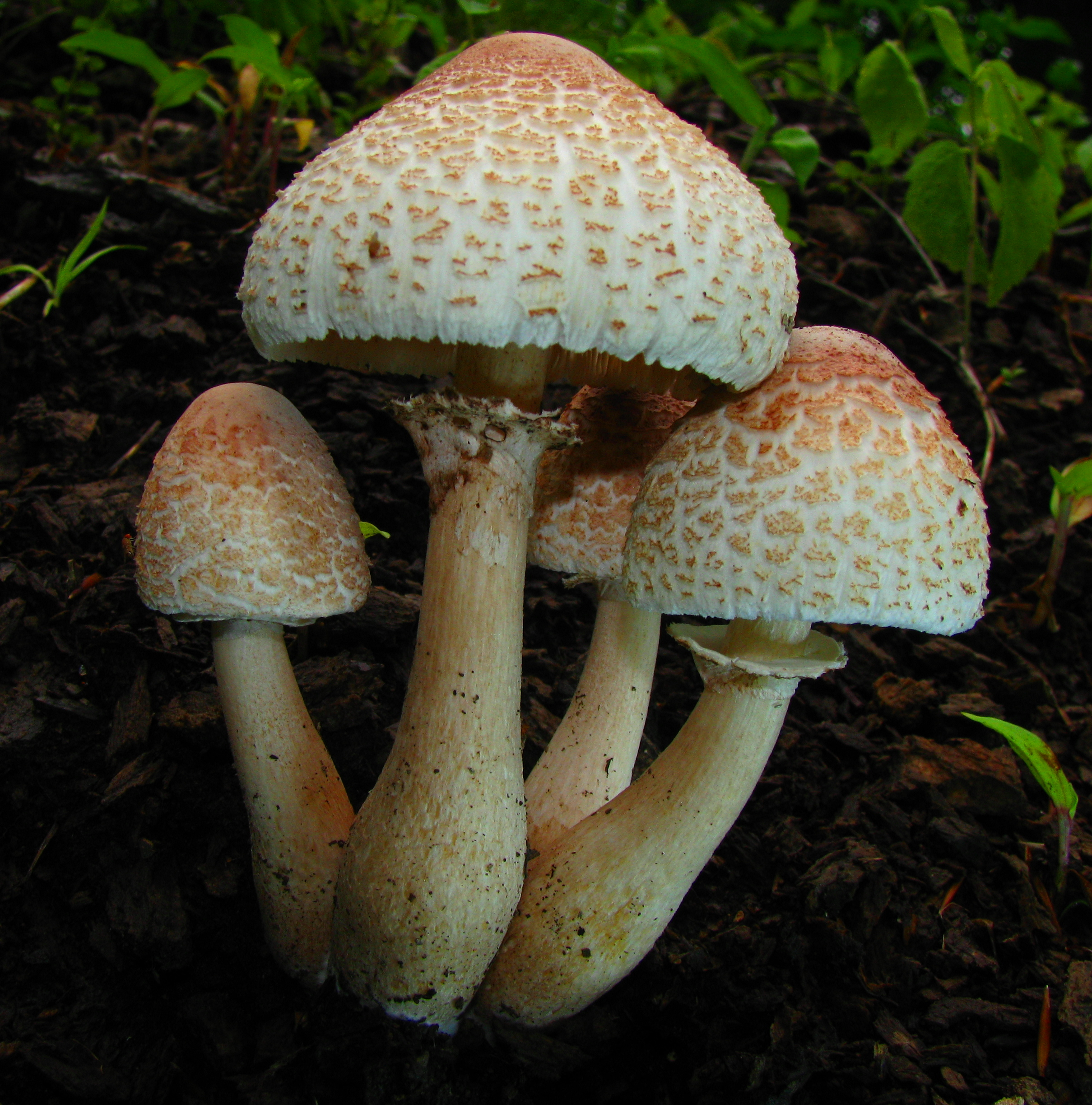 Leucoagaricus americanus (Peck) Vellinga